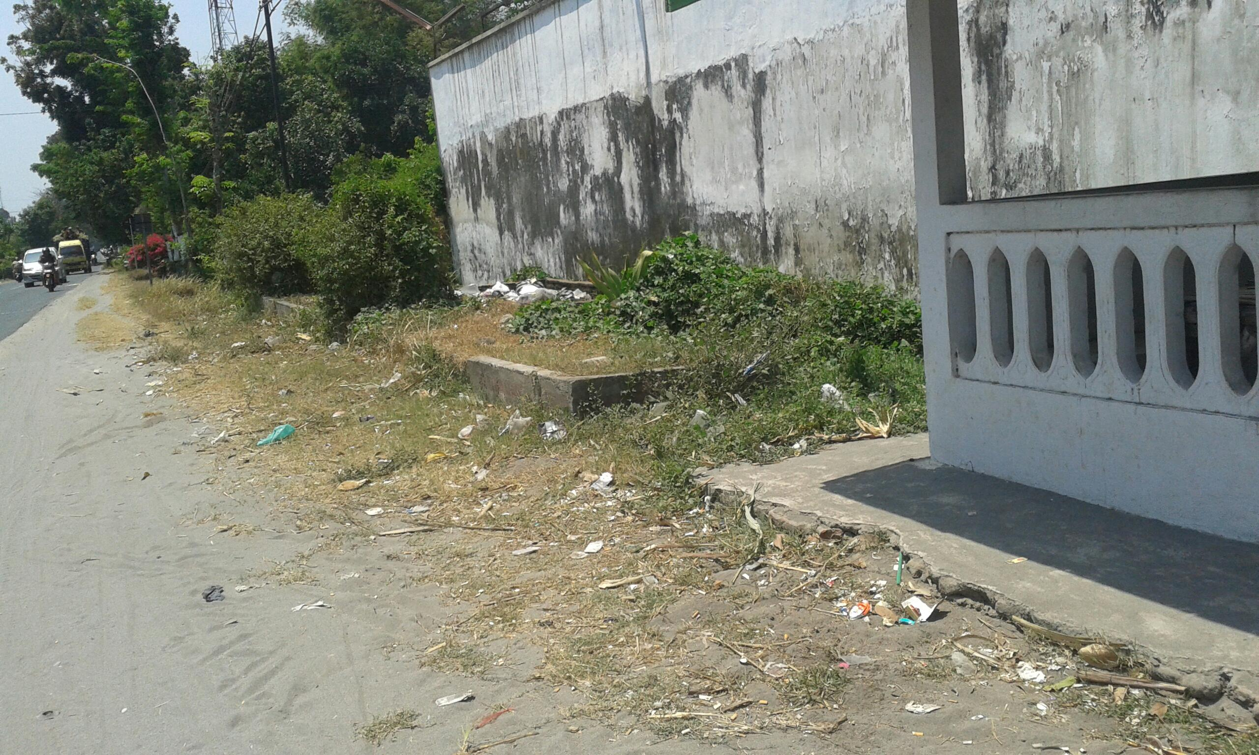 Emplasemen Halte Adanadan